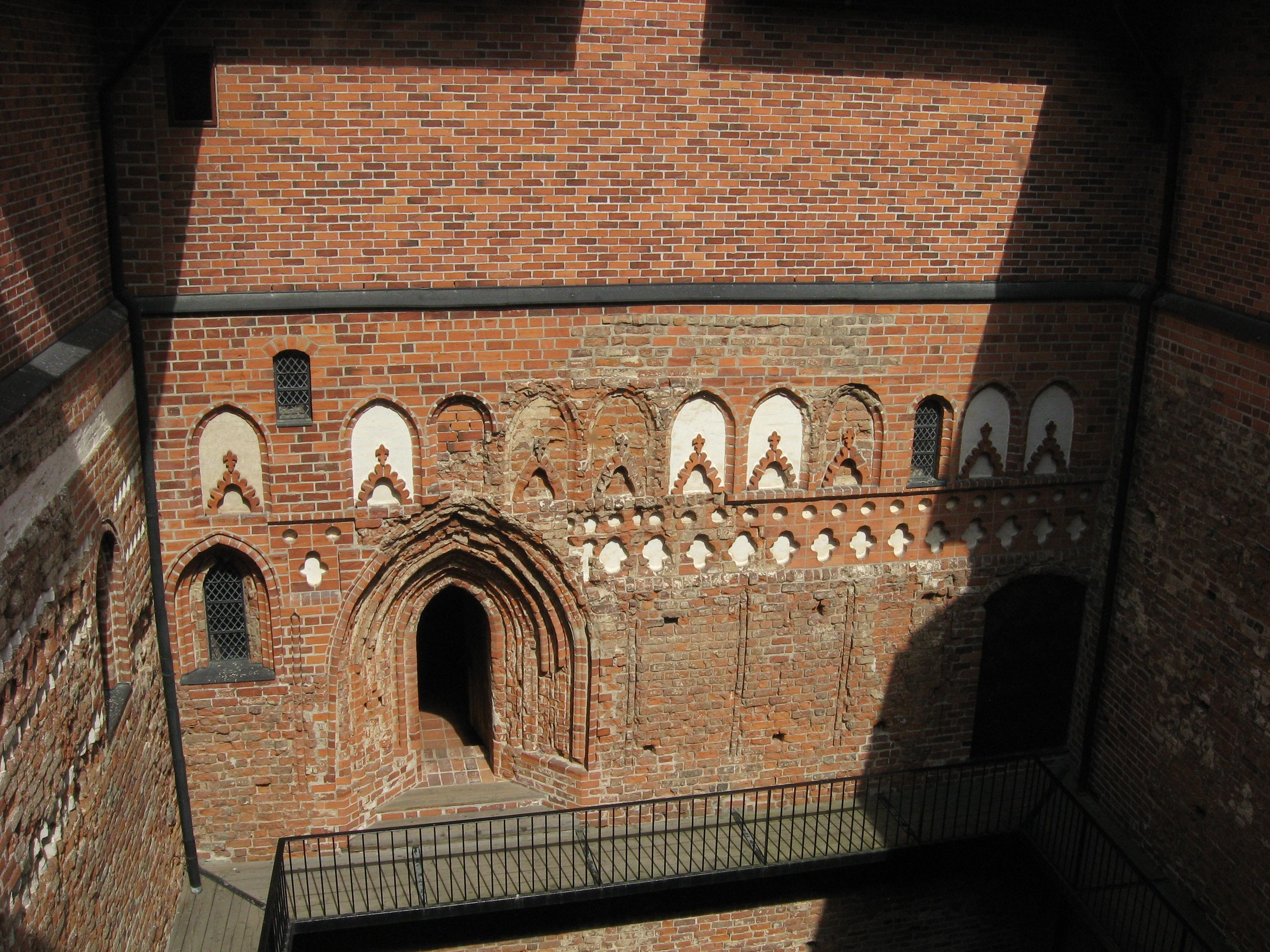 Castle of Häme inner courtyard from upper level, towards east. Hämeenlinna, Finland.